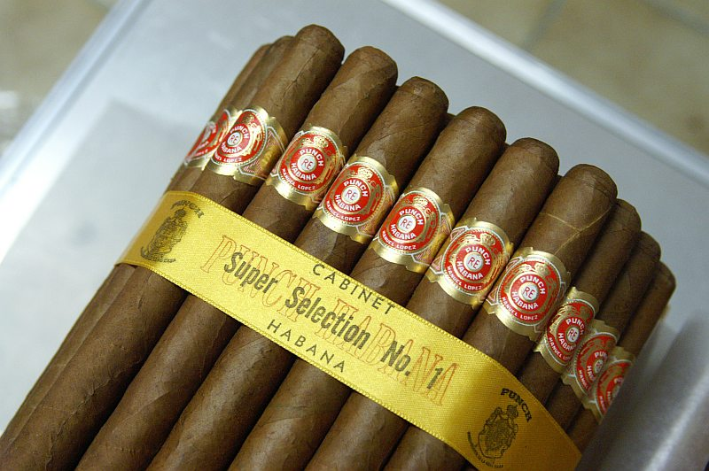 Cabinet of Punch Super Selection No. 1